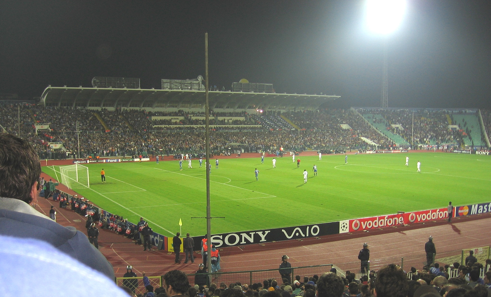 UEFA Champions League 2006-07: PFC Levski Sofia vs Chelsea F.C., Vasil Levski National Stadium, Sofia, Bulgaria